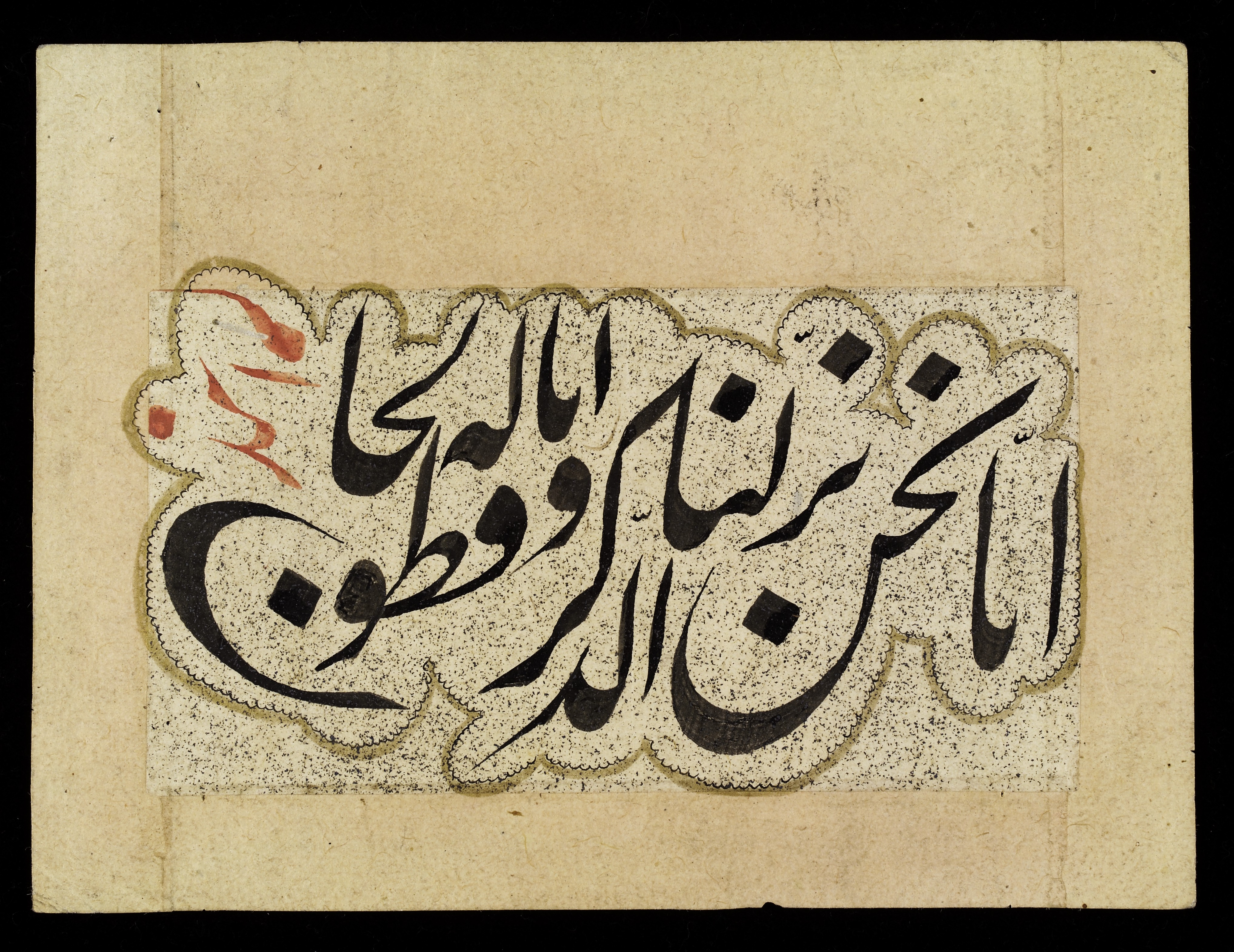 An ode from the Quran written out by Bechran Asian Collection Keywords: Arabic; Middle East